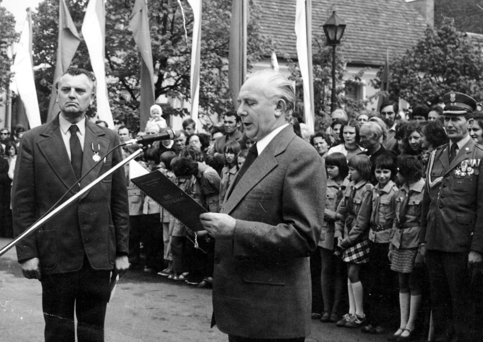 Wiesław Witecki as a City Mayor of Lipno